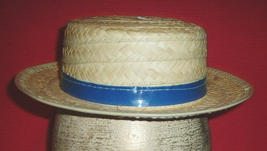 Boater hat